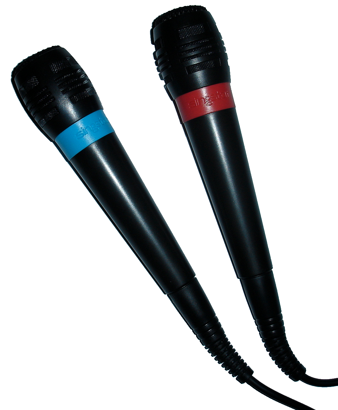 SingStar USB microphones, packaged with PS2 SingStar games